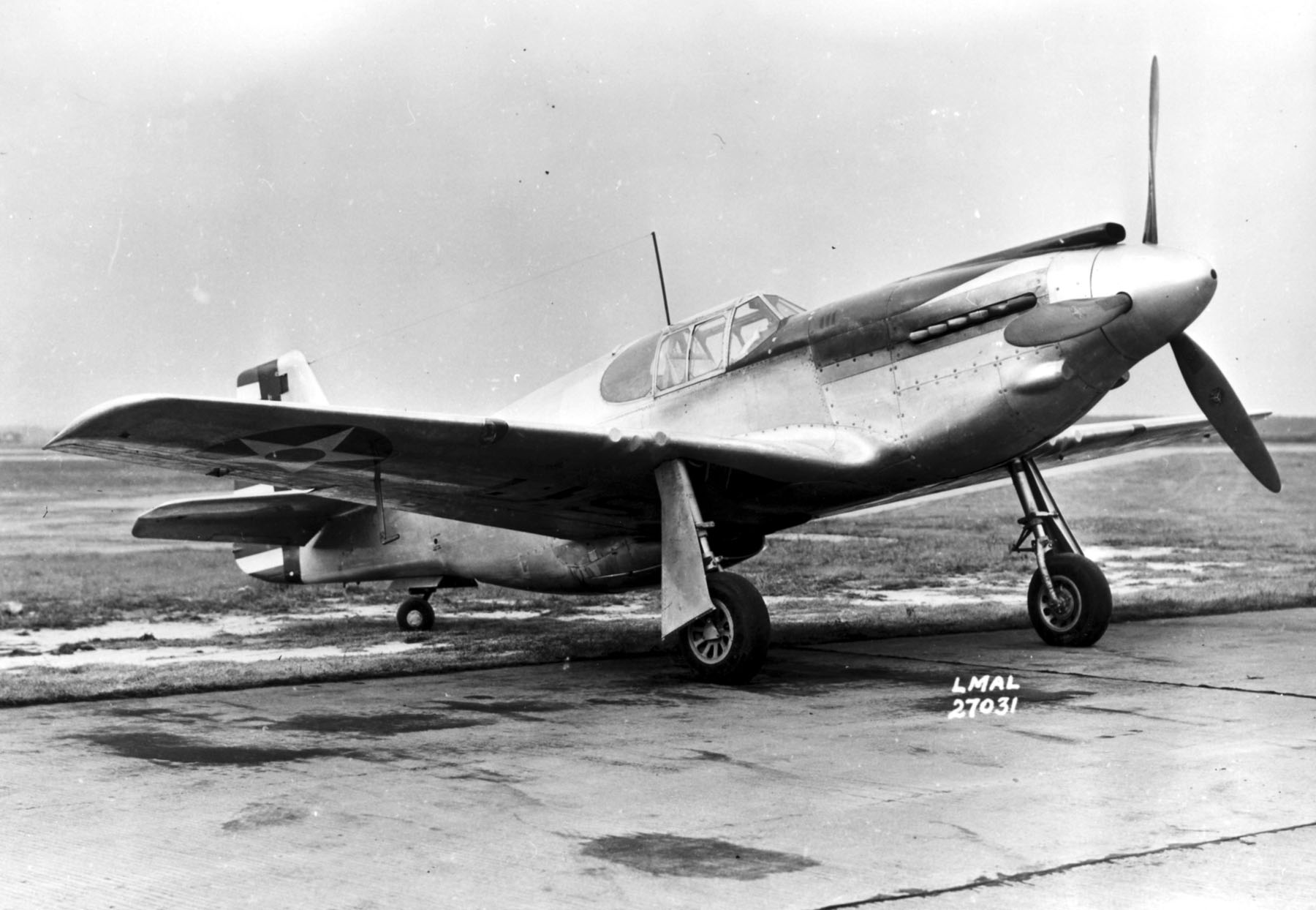 North American XP-51 3/4 front view (S/N 41-039, 2nd a/c built).